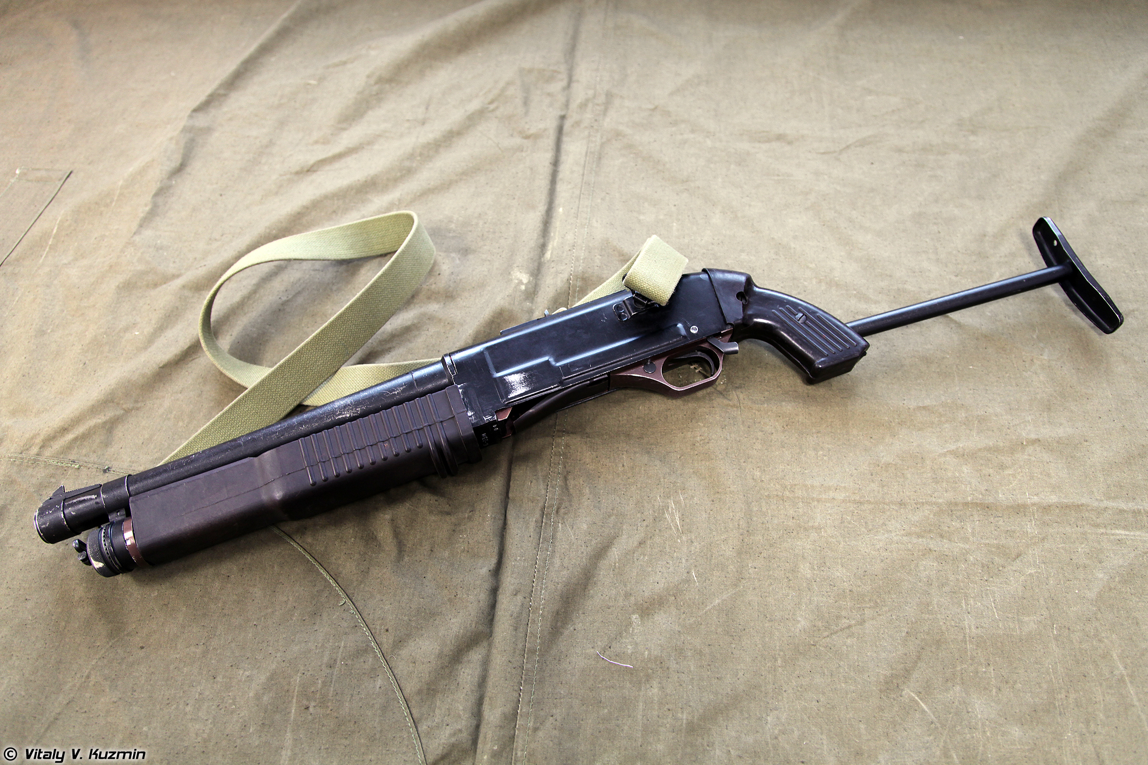 KS-23M Left view with buttstock